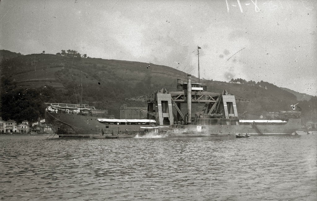 Spanish Navy submarine tender Kanguro and A-1 and A-2 submarines in the bay of Pasaia (1922)